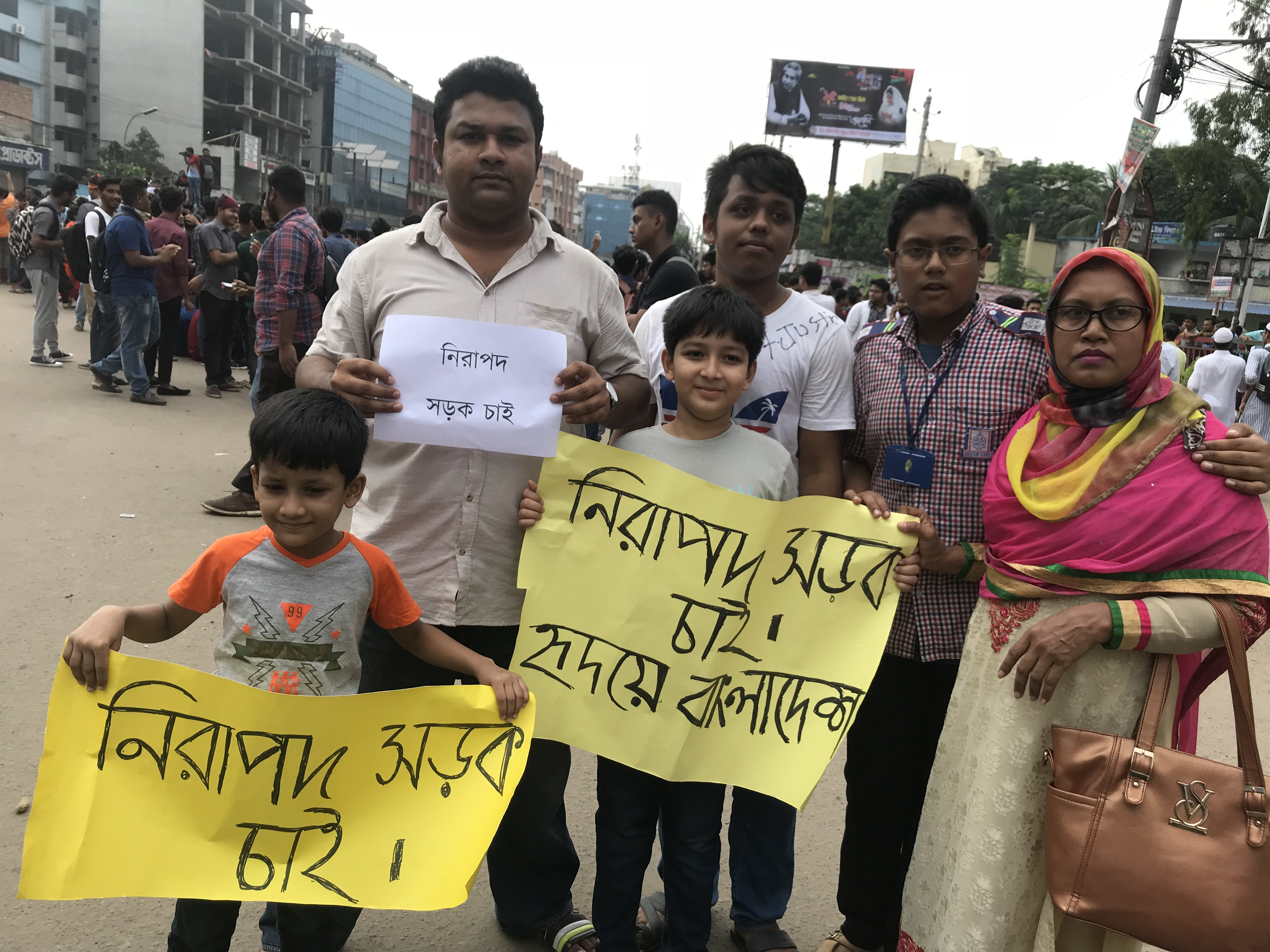 Students want justice for lose two classmates on Dhaka Airport Road Crashes